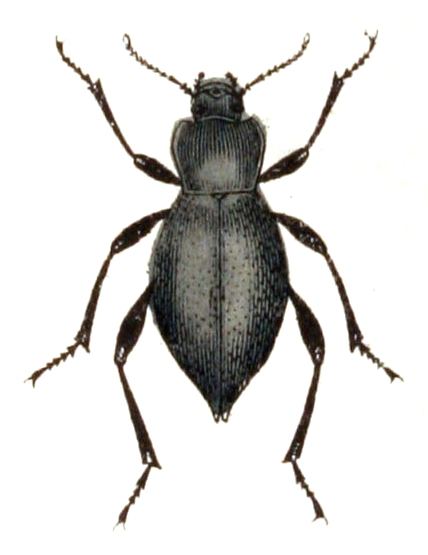 Blaps mortisaga, from Calwer's Käferbuch, Table 47, Picture 14. Taxonomy was updated to 2008, using mostly the sites Fauna Europaea and BioLib. Please contact Sarefo if the determination is wrong!